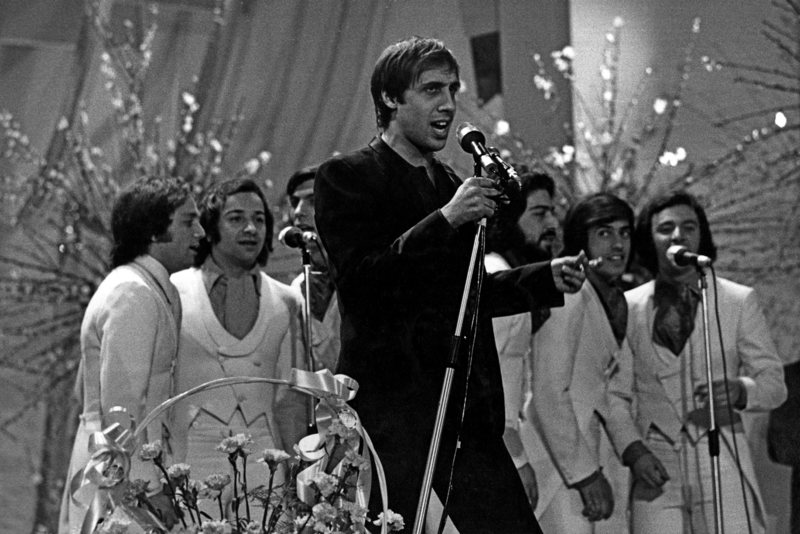 Adriano Celentano si esibisce sul palco del Festival di Sanremo 1970